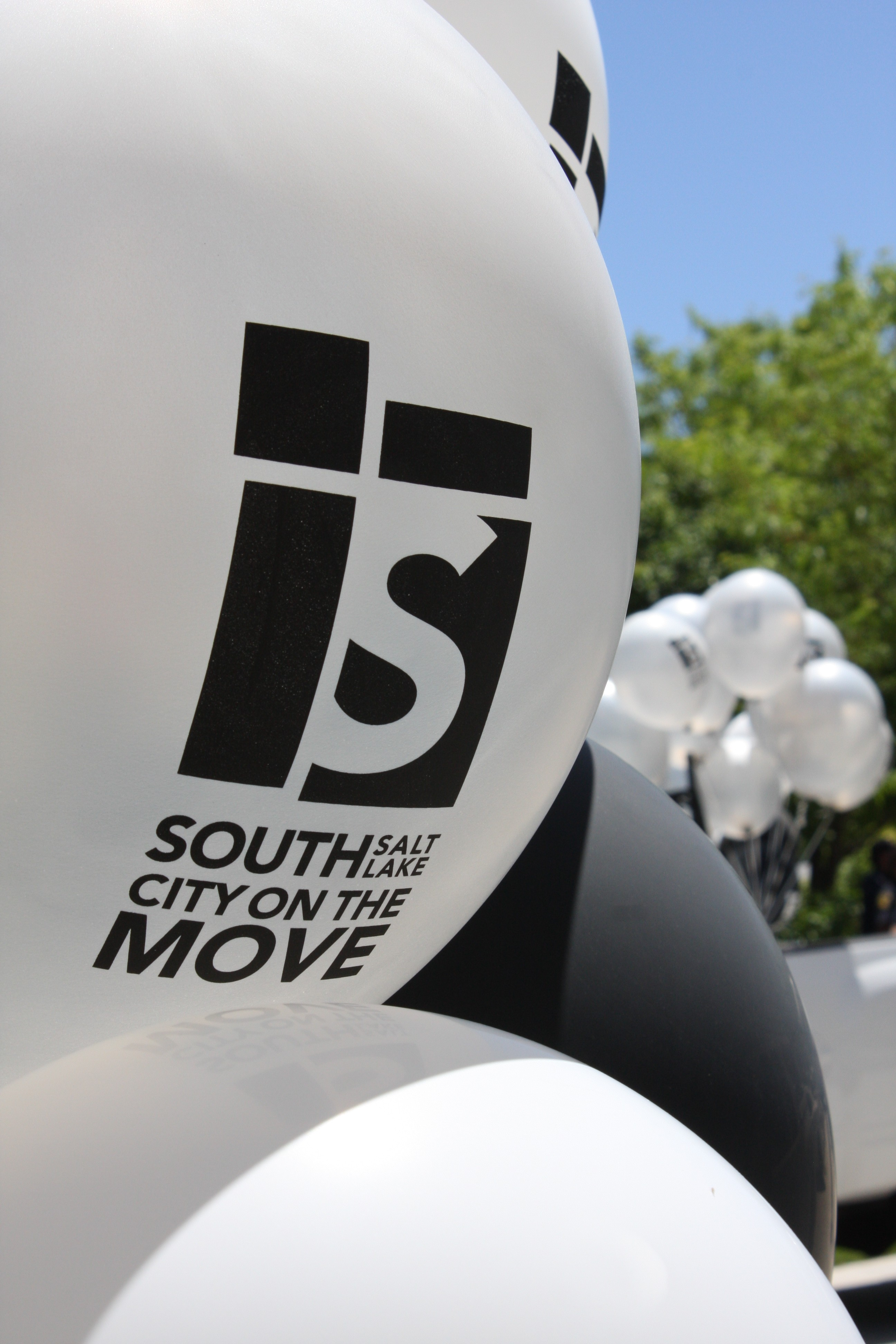 The City of South Salt Lake, UT logo and tag line, City on the Move.